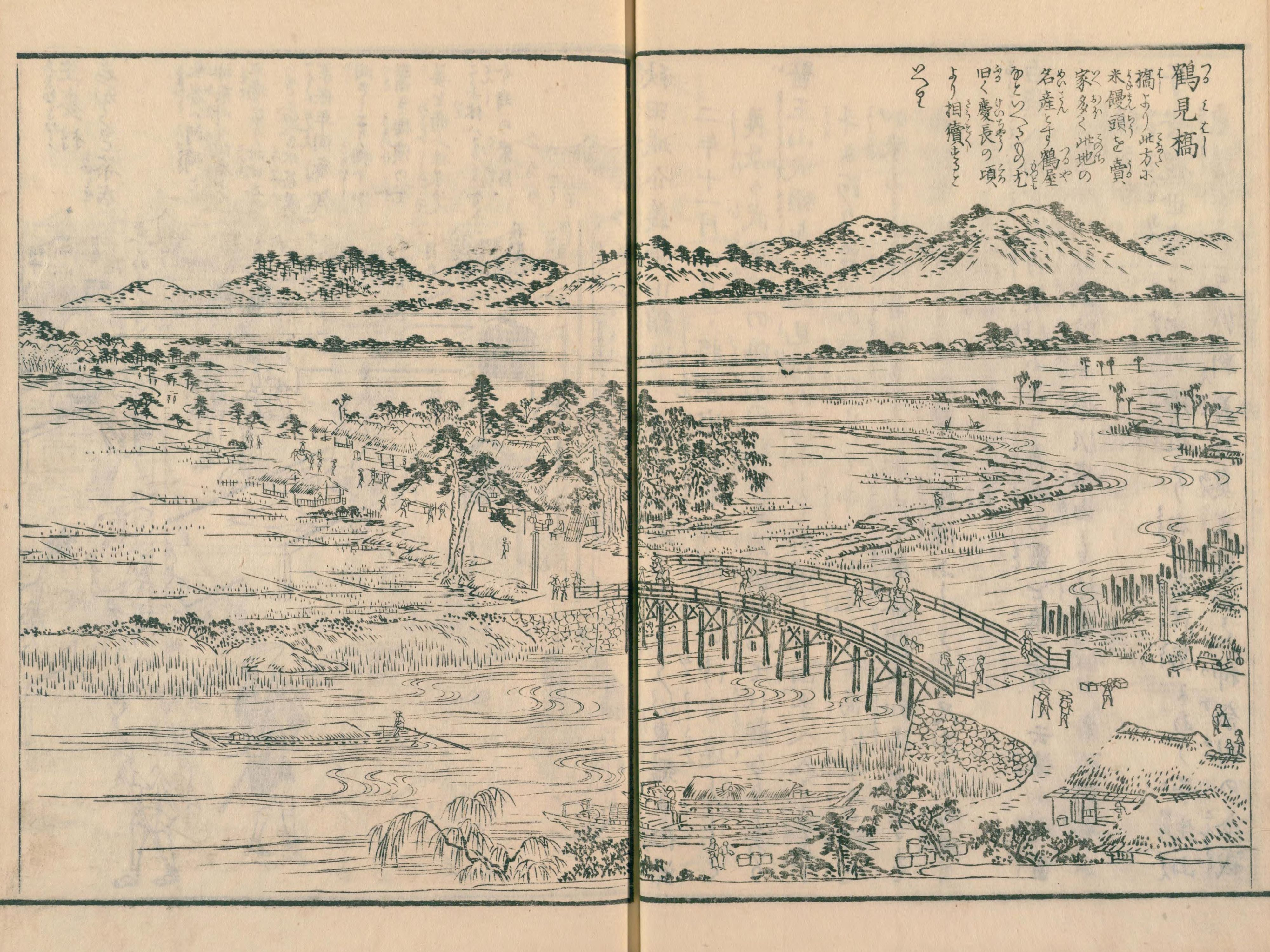 Tsurumi-bashi bridge in Edo Meisho Zue vol. 2 (book 5)